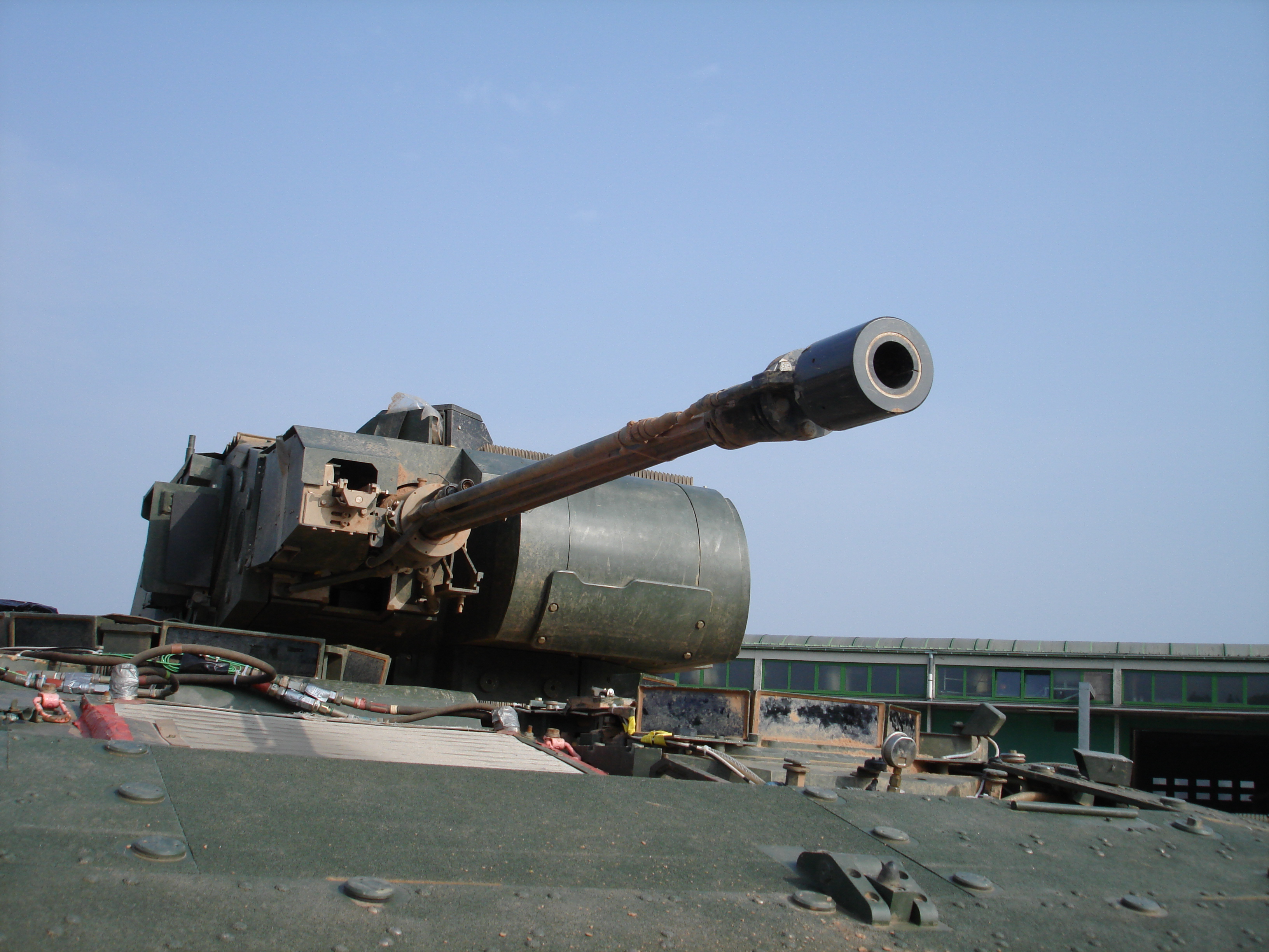 Rheinmetall 30 mm MK 30-2/ABM (Air Burst Munitions) autocannon on the Demonstrator for mobility-VS2.